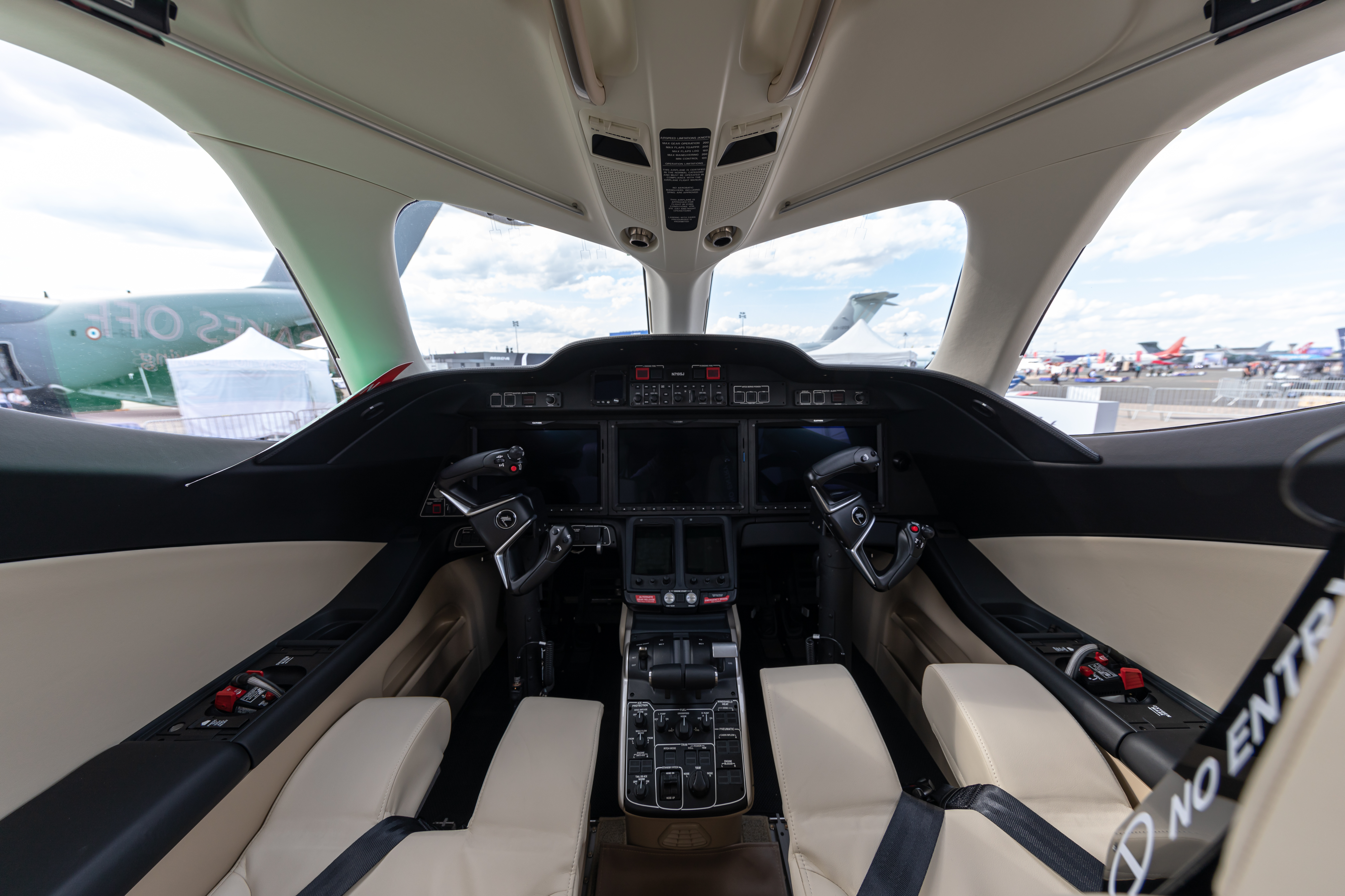 Cockpit of a HondaJet at Paris Air Show 2019